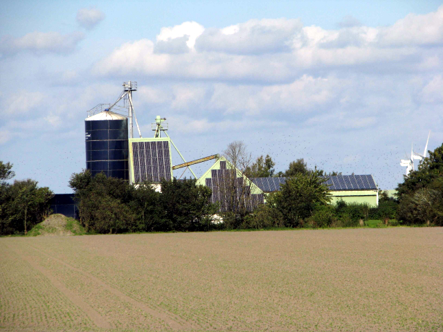 Grain elevator of german company Farmatic